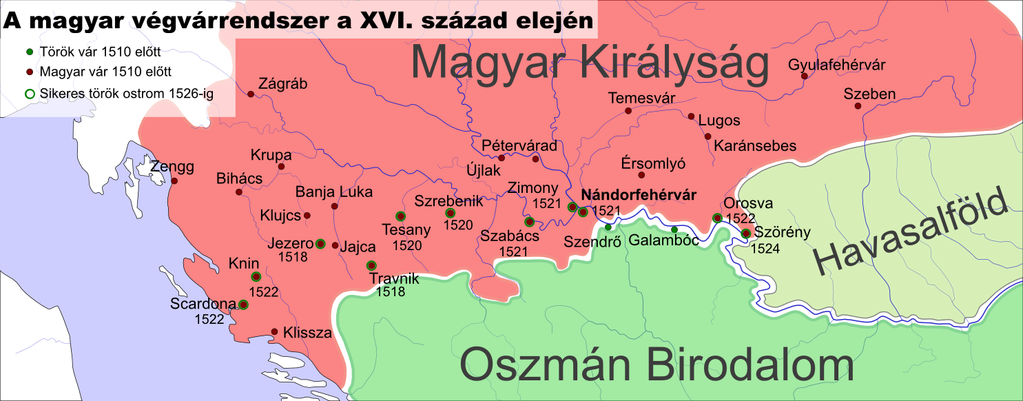 Hungarian and Ottoman fortresses at the beginning of the 16th century.